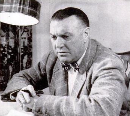 The author, journalist and psychical researcher Kenneth Roberts.